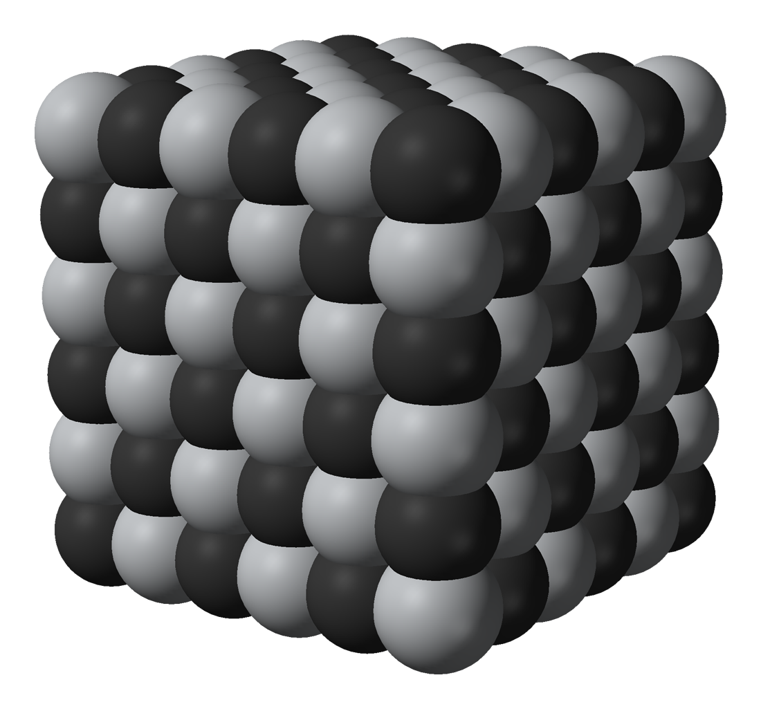 Space-filling model of part of the crystal structure of titanium carbide, TiC. Crystal structure data from Wyckoff (1963) Crystal Structures - Second Edition, Volume 1. John Wiley, New York. Image generated in Accelrys DS Visualizer.